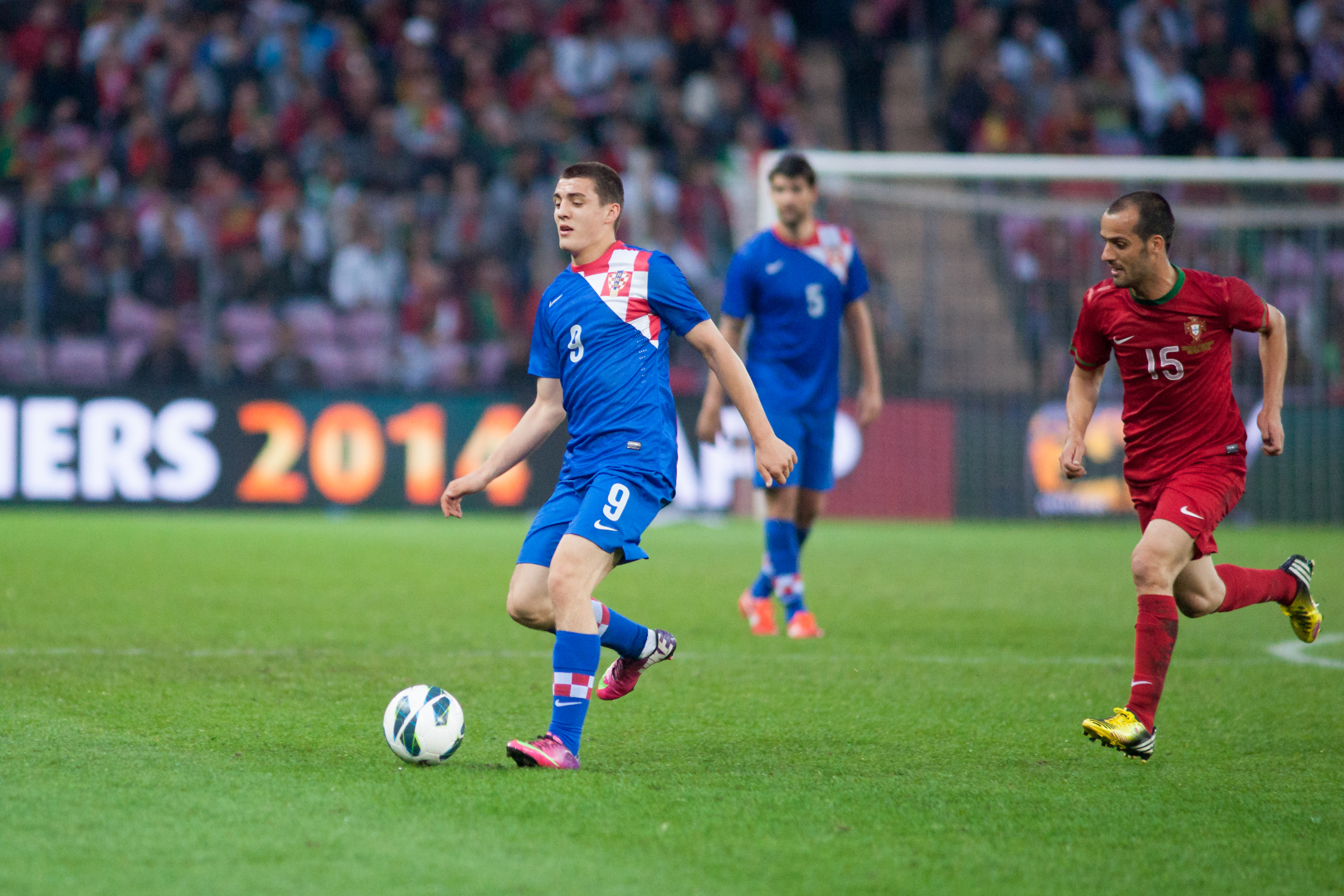 Croatia vs. Portugal, 10th June 2013